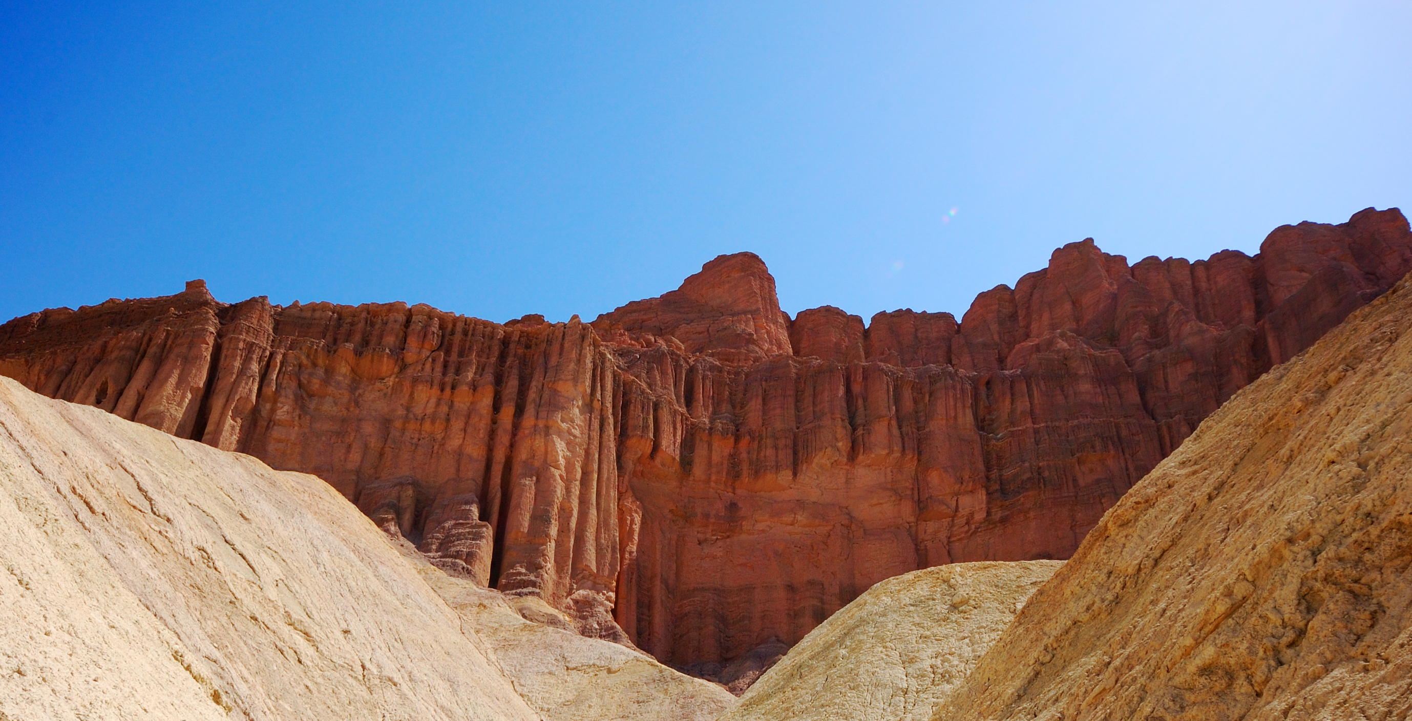 The cliffs of Red Cathedral as seen from the end of the Golden Canyon Rail in Death Valley National Park, California.